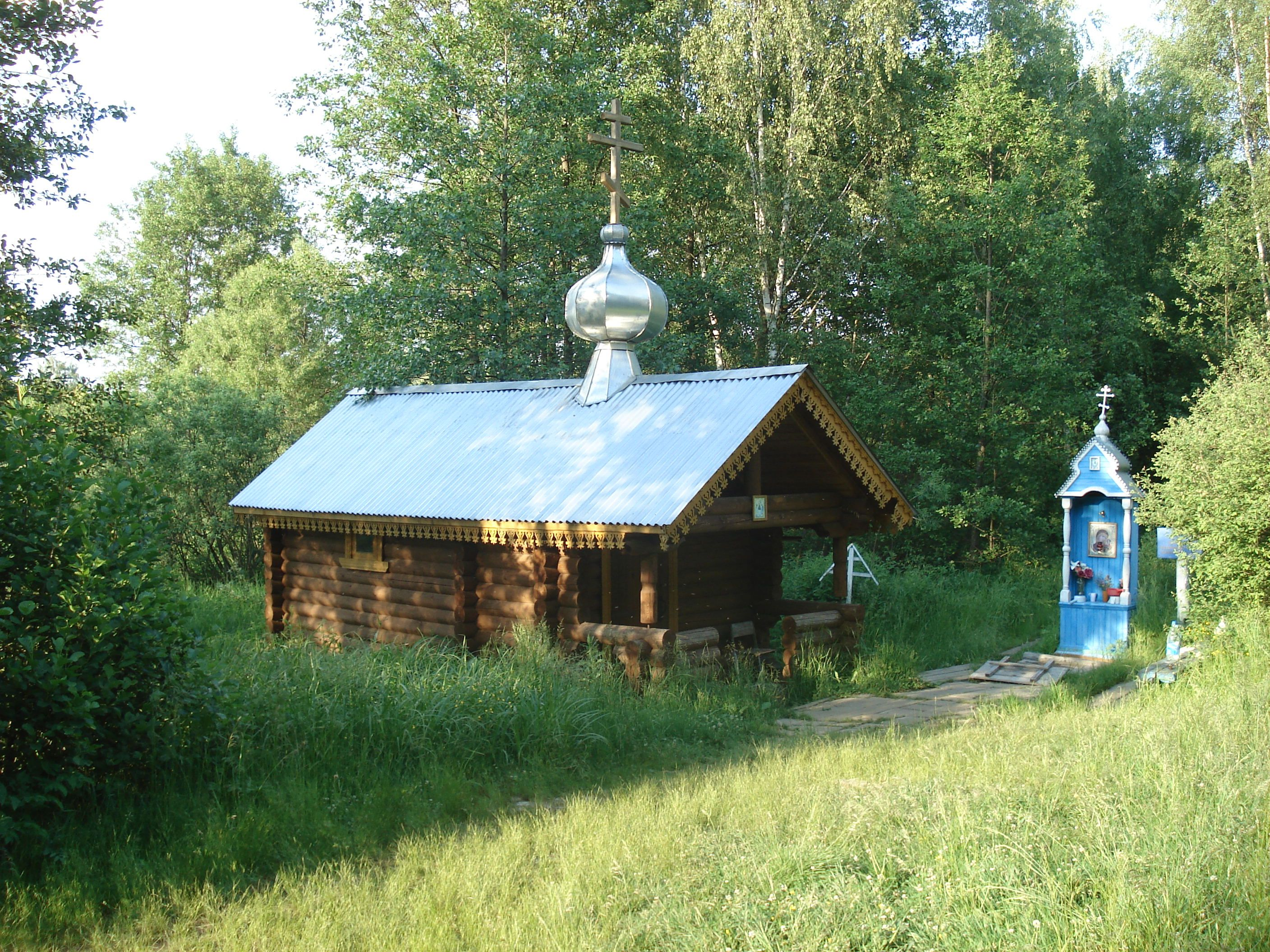 Сhapel-font about an Our Lady of Kazan Icon` spring on coast of the Shuvoyka River (inflow Guslitsa) near to the village of Gridino.